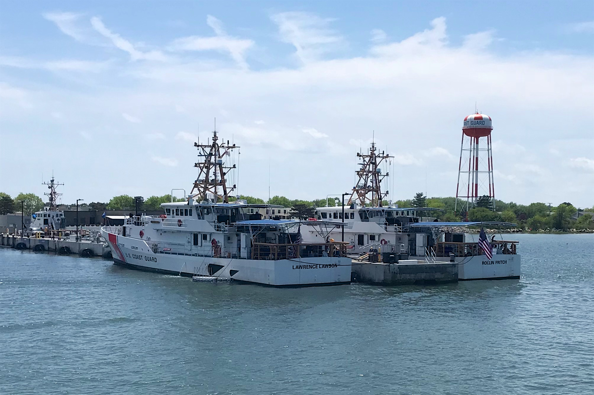 USCG Cutter Lawrence Lawson and USCG Cutter Rollin A. Fritch at the United States Coast Guard Training Center in Cape May, New Jersey.